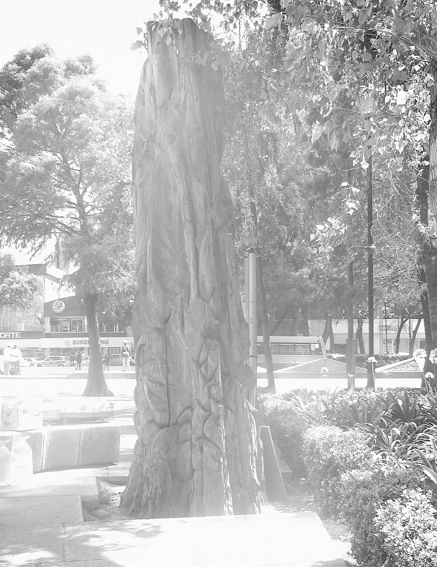 Paseo de la Reforma Mexico City sculpture by Guillermo Téllez